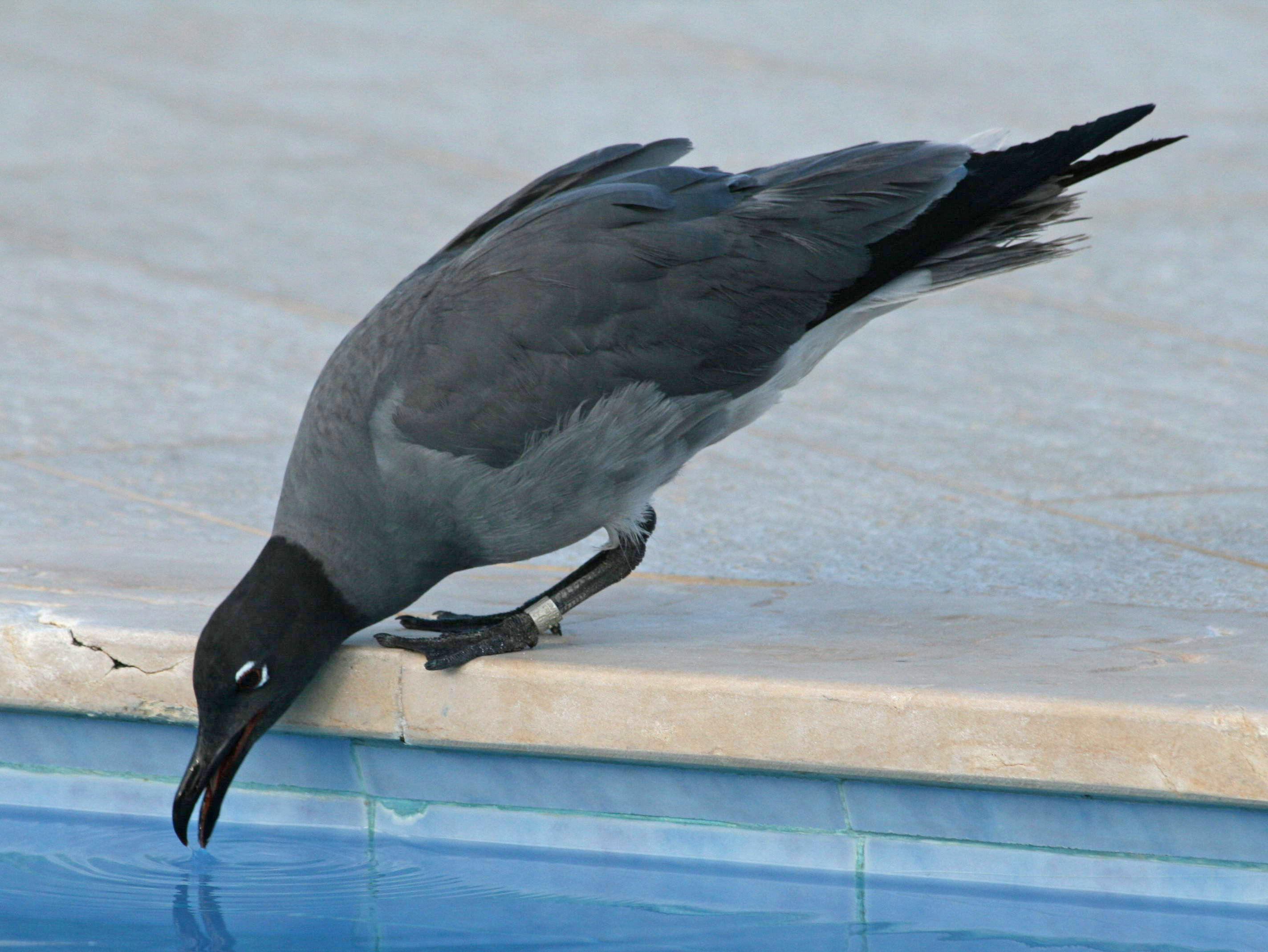 Lava Gull (Leucophaeus fuliginosus) on Santa Cruz Island in the Galapagos. The bird is drinking from the swimming pool of the Finch Bay Eco Hotel. This gull did not have a scarlet colored mouth. Perhaps this is because of the time of year or the age of the bird.